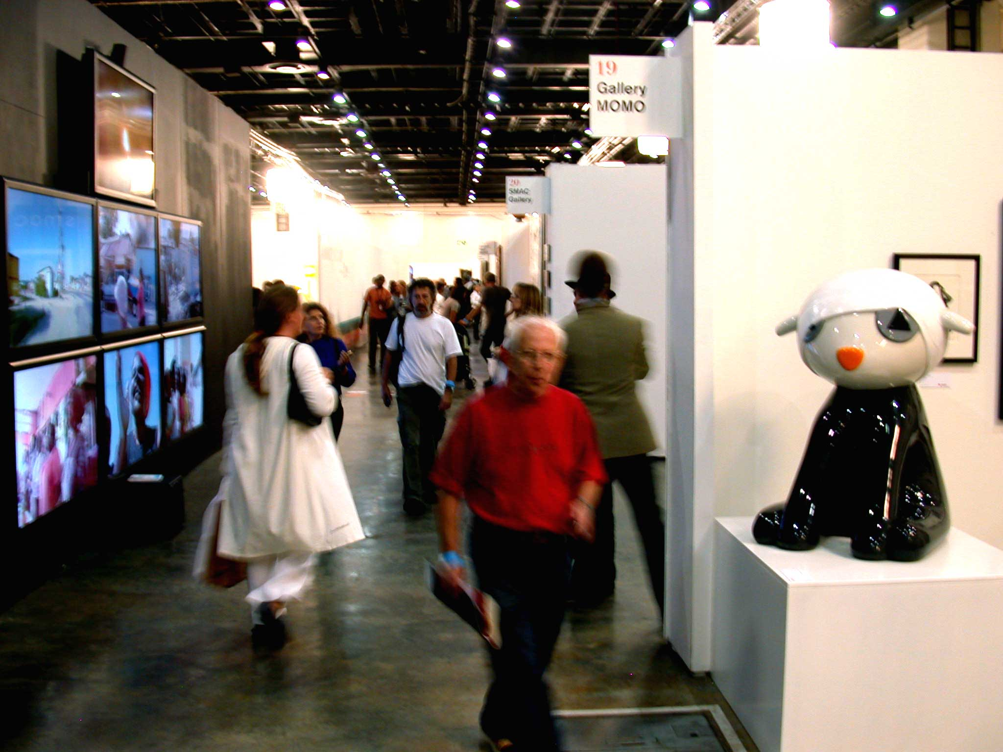 2008 Joburg Art Fair at the Sandton Convention Centre in Johannesburg